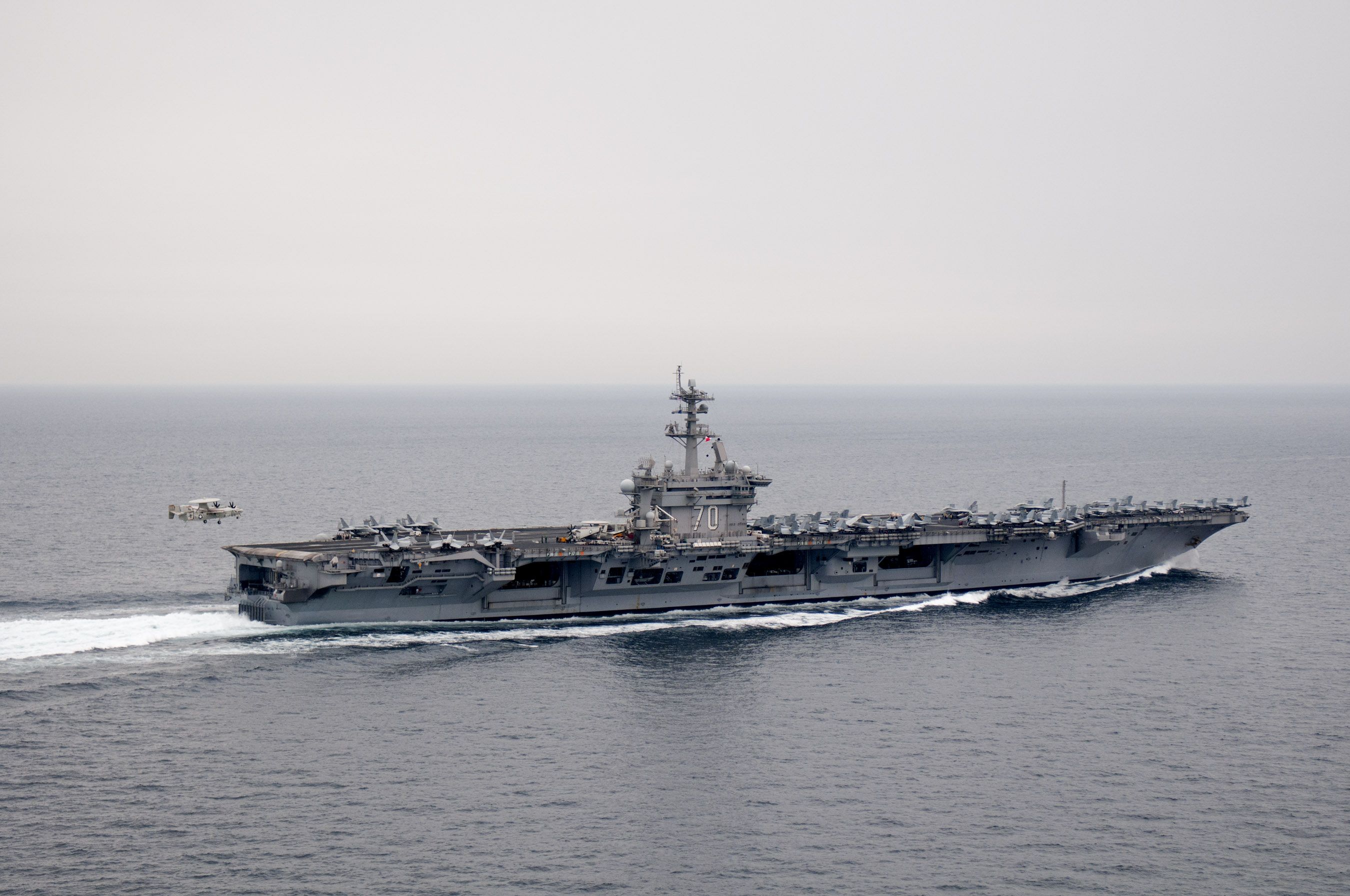 A U.S. Navy Grumman E-2C Hawkeye assigned to Carrier Airborne Early Warning Squadron (VAW) 125 approaches the flight deck of the aircraft carrier USS Carl Vinson (CVN-70) in the Arabian Gulf. Carl Vinson and Carrier Air Wing (CVW) 17 were conducting maritime security operations and close-air support missions in the U.S. 5th Fleet area of responsibility.